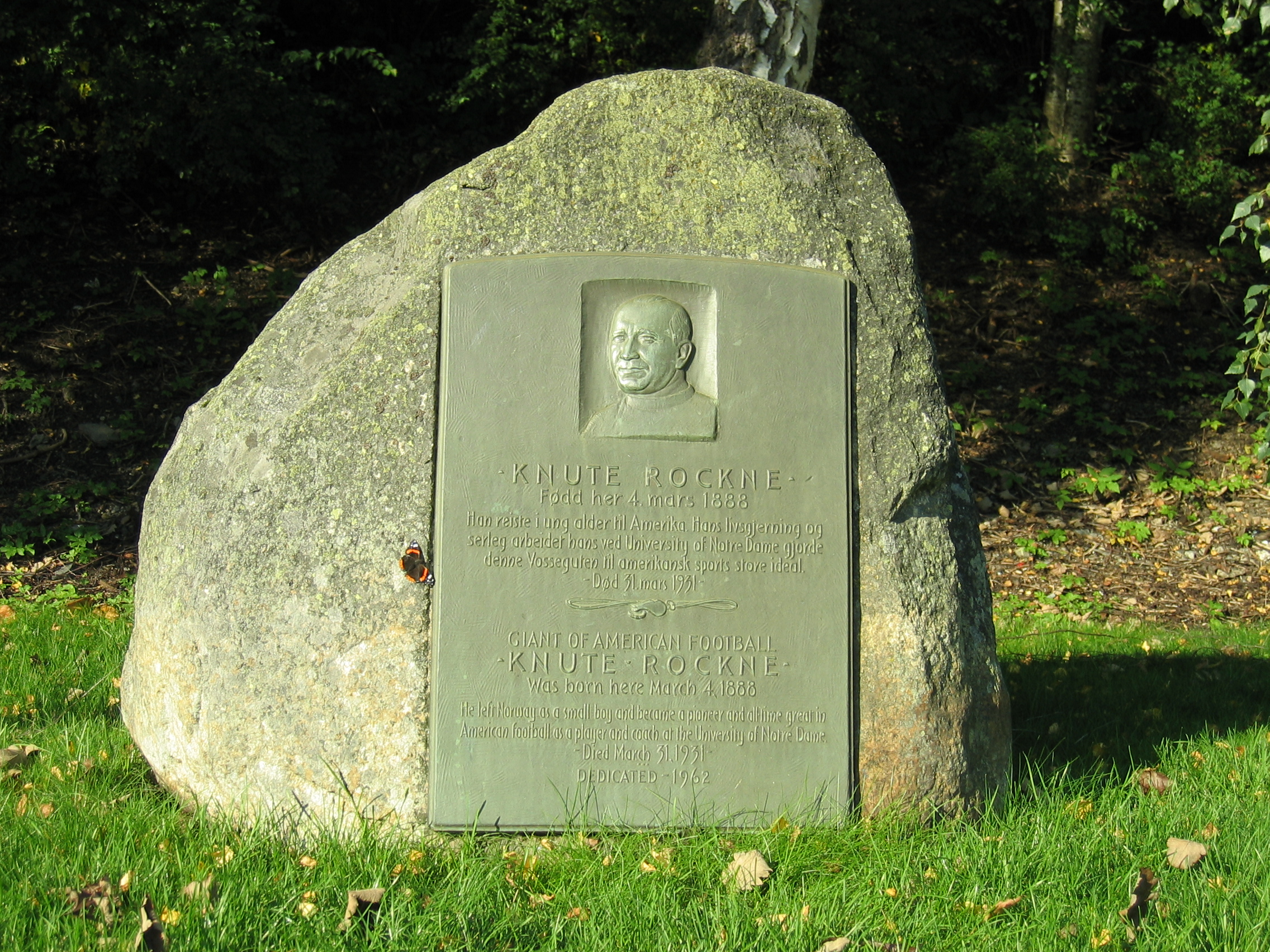 Knute Rockne Memorial at his birthplace, Voss, Norway. Photo taken by PerPlex